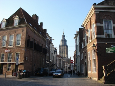 zutphen